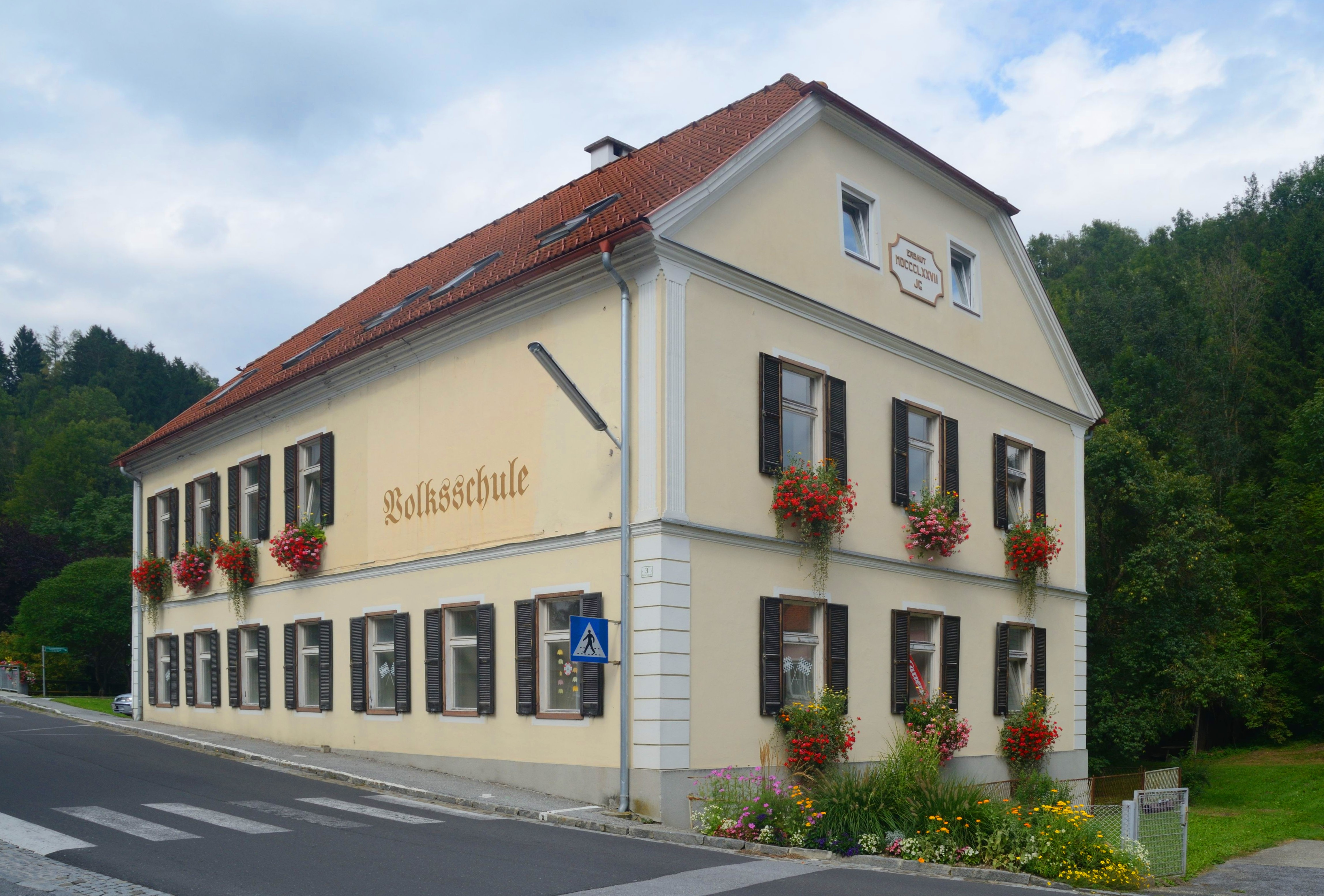 Former primary school in Mönichwald, Styria.